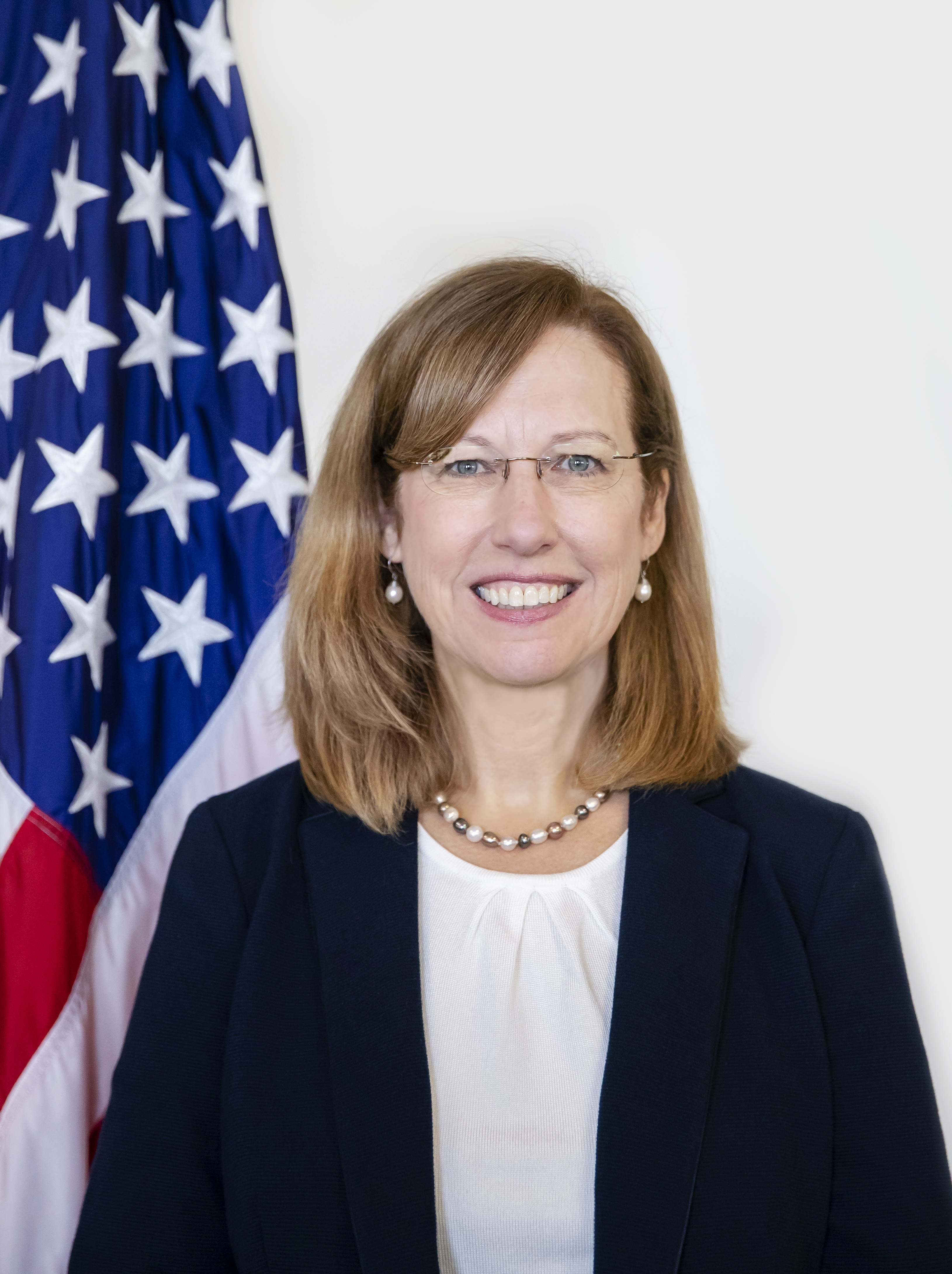 Image of Kristina Kvien, United States diplomat, in June 2019, during her time as the United States Chargée d’Affaires to Ukraine.